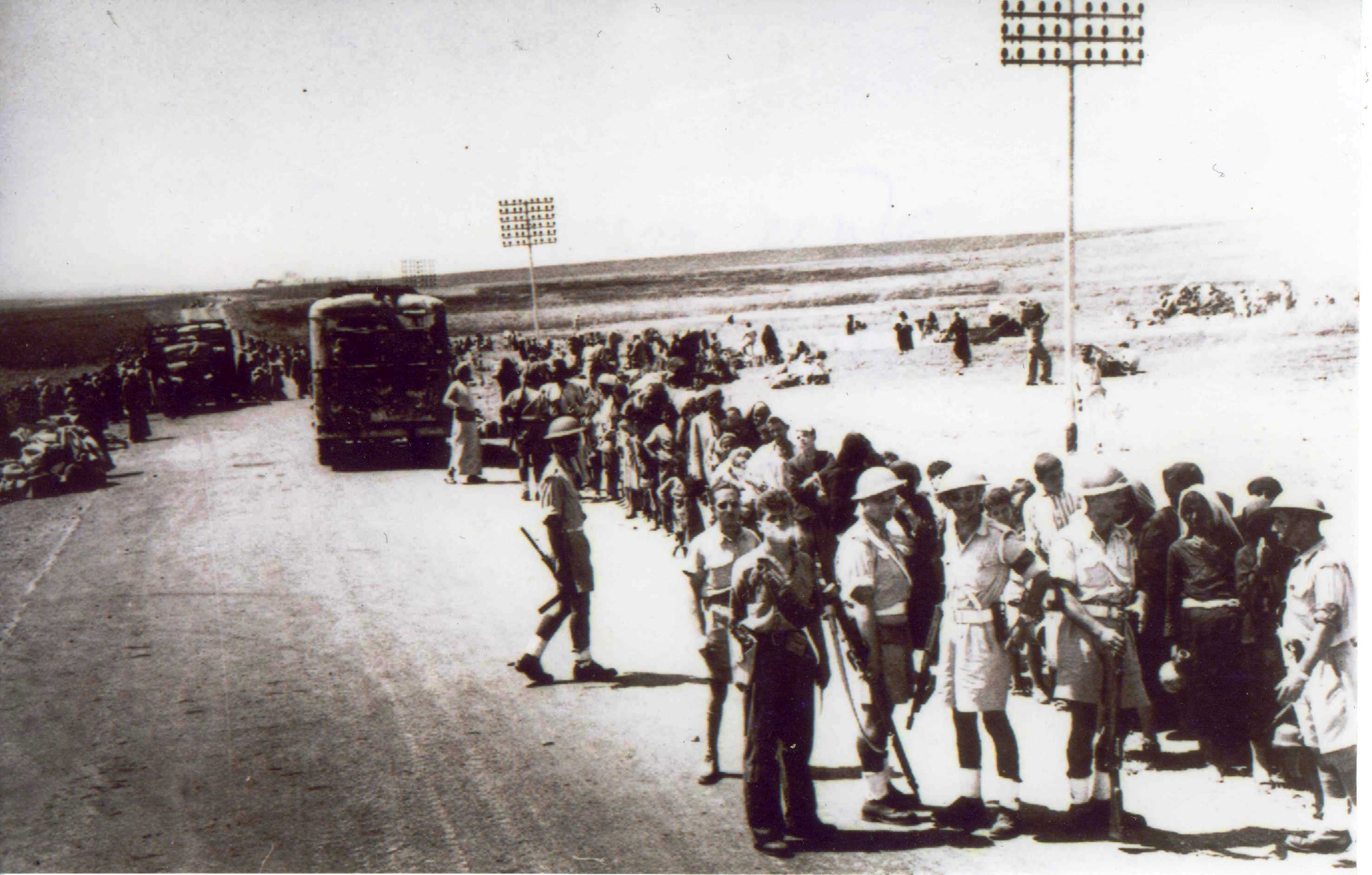 The Palmach, Settlements in Israel